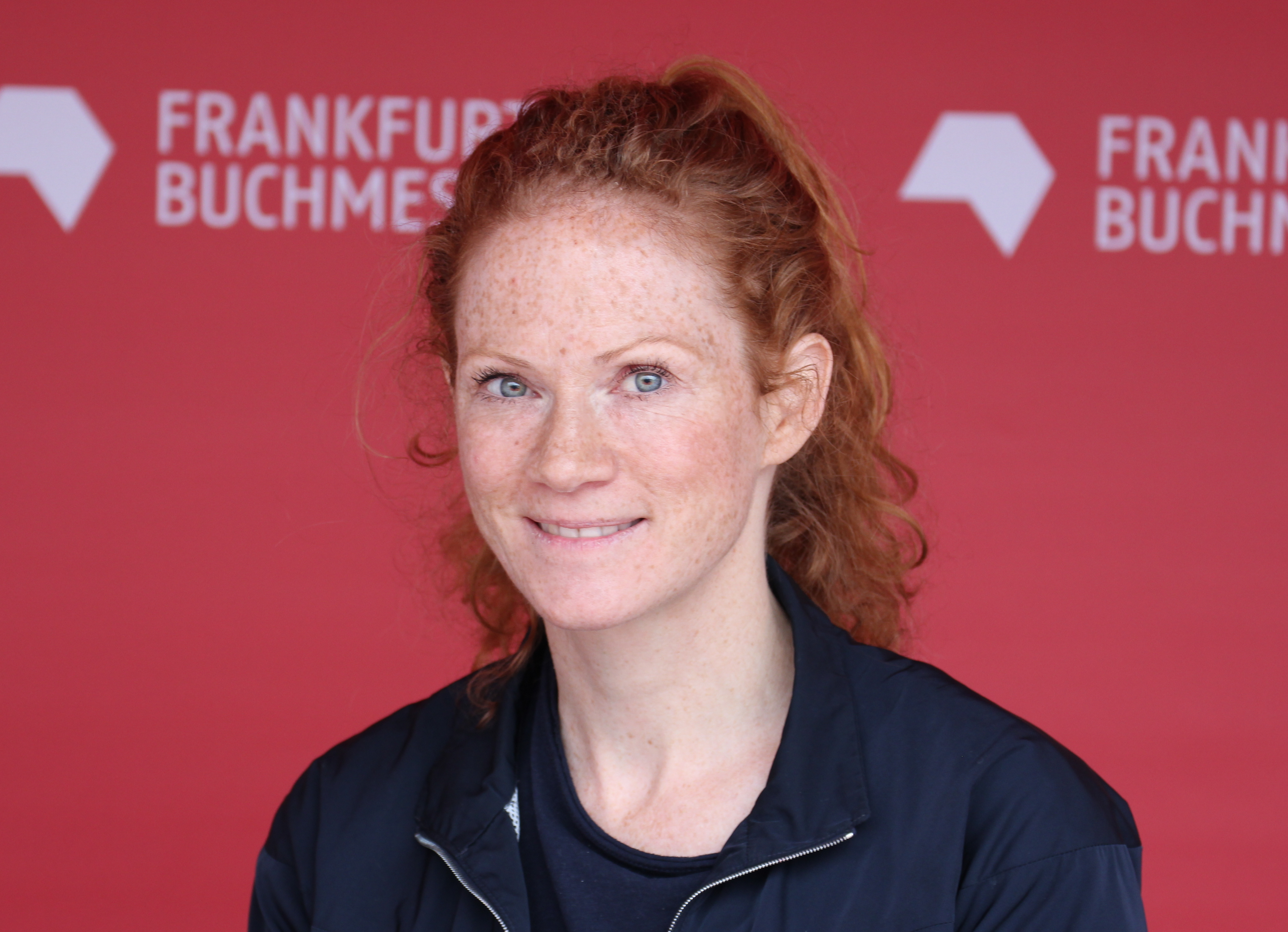 Alexa Hennig von Lange, Frankfurt Book Fair 2017